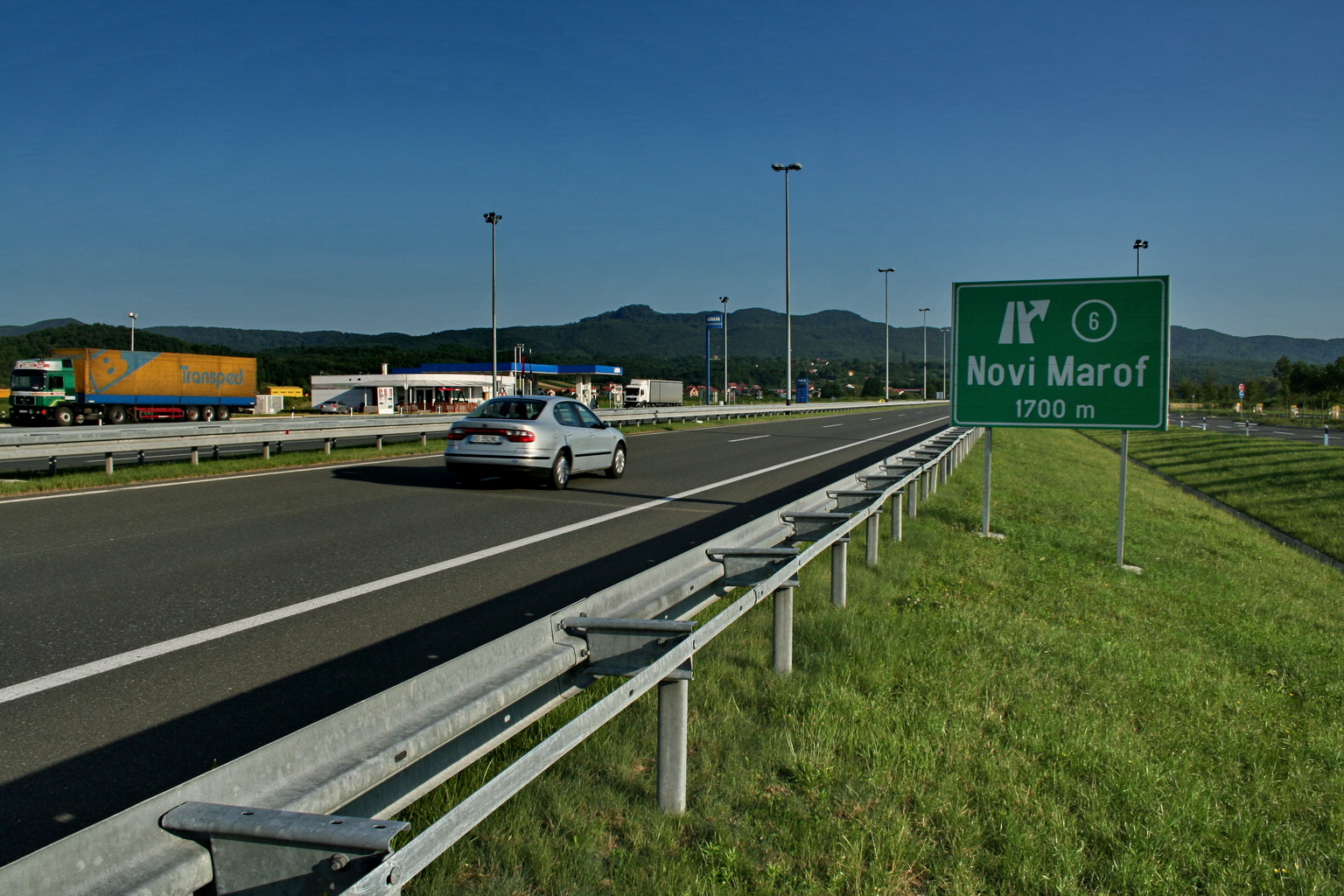 Croatian highway A4 near by exit NOVI MAROF (photo taken from rest-station Ljubešćica)